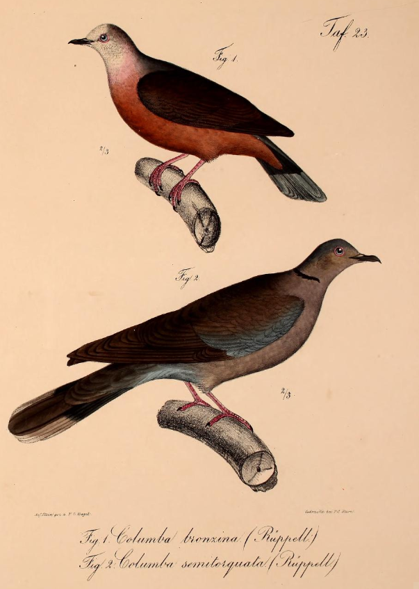 Engraving of lemon dove and red-eye dove.